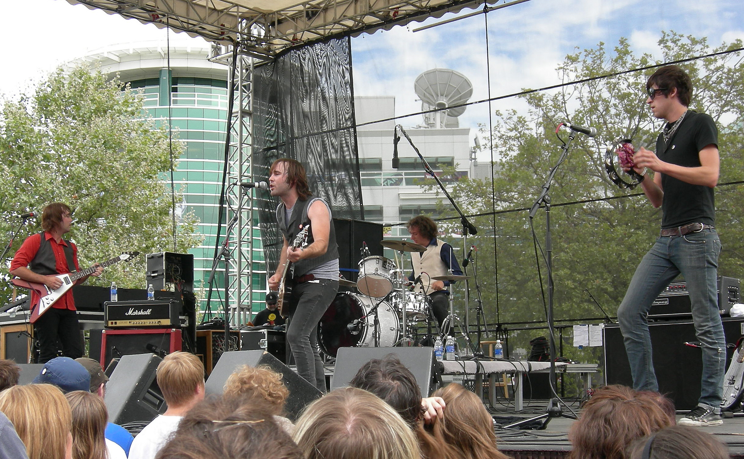 Seattle indie rock band The Blakes playing at Bumbershoot, a music and arts festival held every Labor Day at Seattle Center, Seattle, Washington.